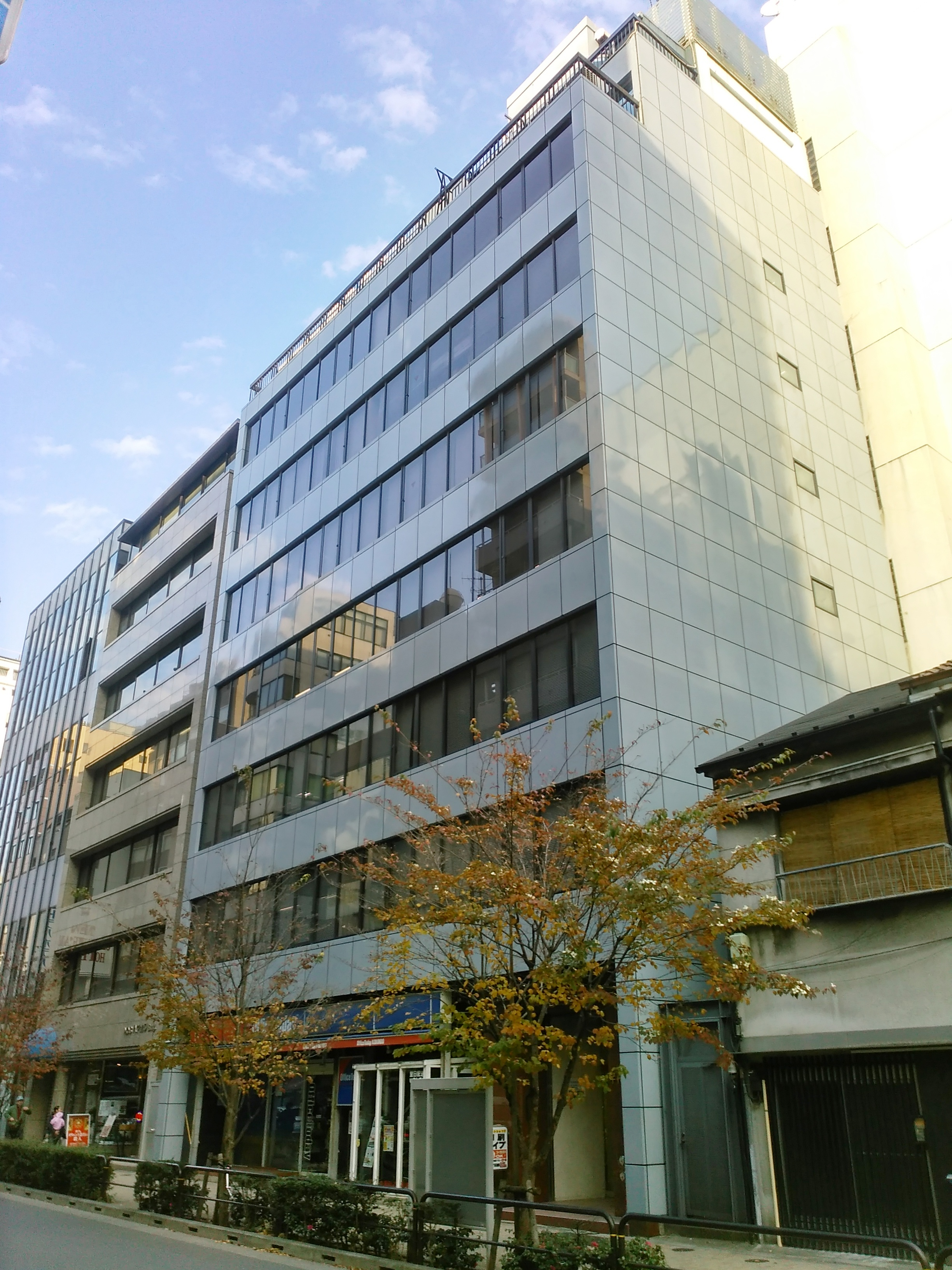 Headquarters office (Chiyoda Building) of Meiji Machine Co., Ltd.(TYO:6334), a machinery company in Chiyoda-ku, Tokyo, Japan.